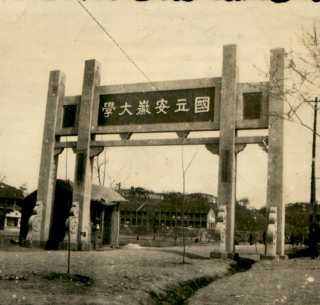 Gate of National Anhui University (Wu Hu)